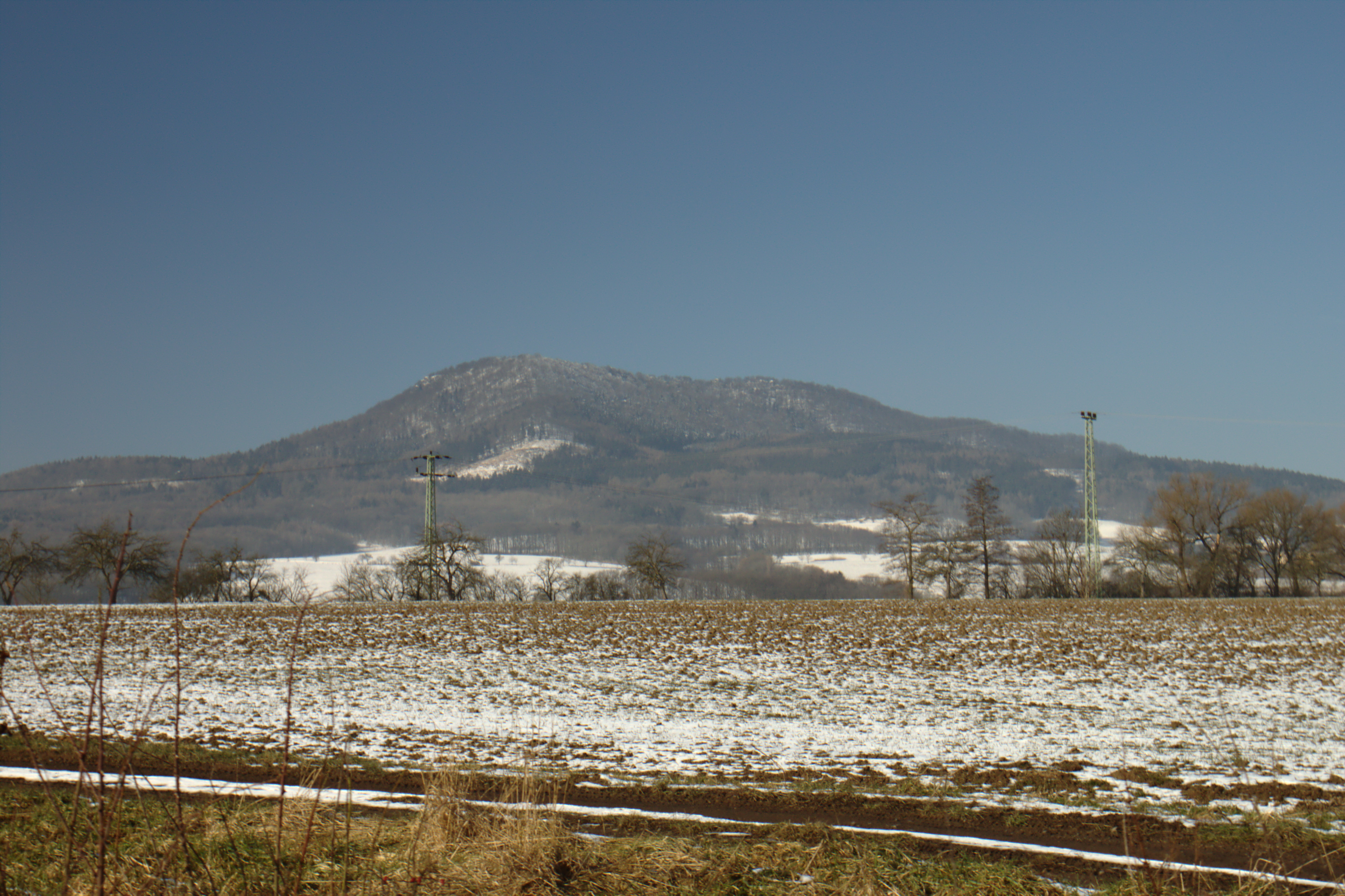 View of the Sedlo hill from the village of Habřina, Ústí Region, CZ